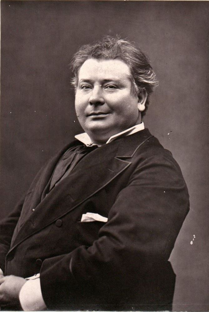 Daubray, French comic and operetta actor, 1876